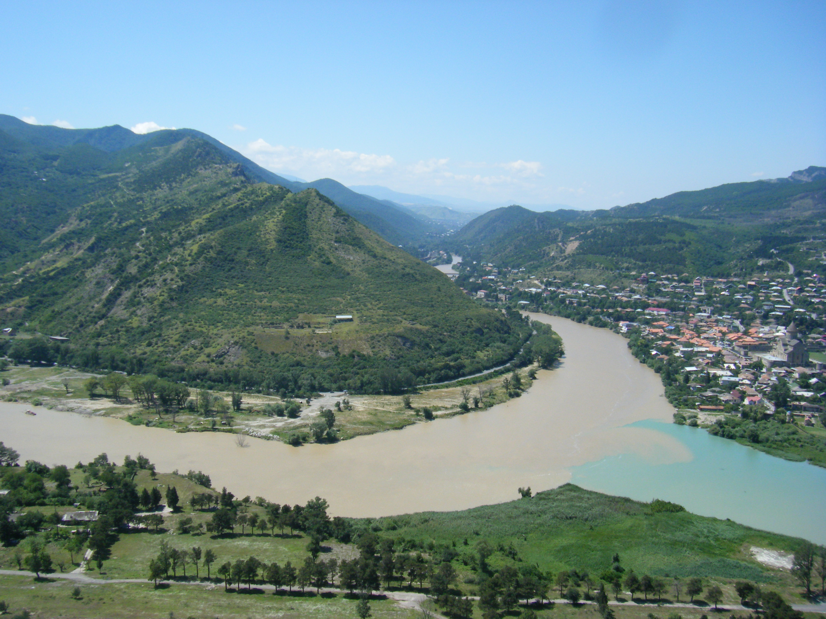 The ancient cities of Mtskheta (right) and Armaz (left). The river that joins the Mtkvari is the Aragvi River (skyblue). The picture has been taken from the Jvari Monastery (Georgia).